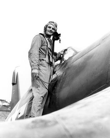 World War II (WWII) era photograph of US Marine Corps (USMC) First Lieutenant (1LT) Williams L. Hood, standing on the wing of a US Navy (USN) F4U "CORSAIR" aircraft at Okinawa, Japan, 1945.